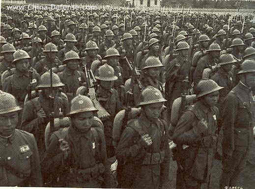 Chinese troops ready for battle. Helmets are French Adrian style helmets.